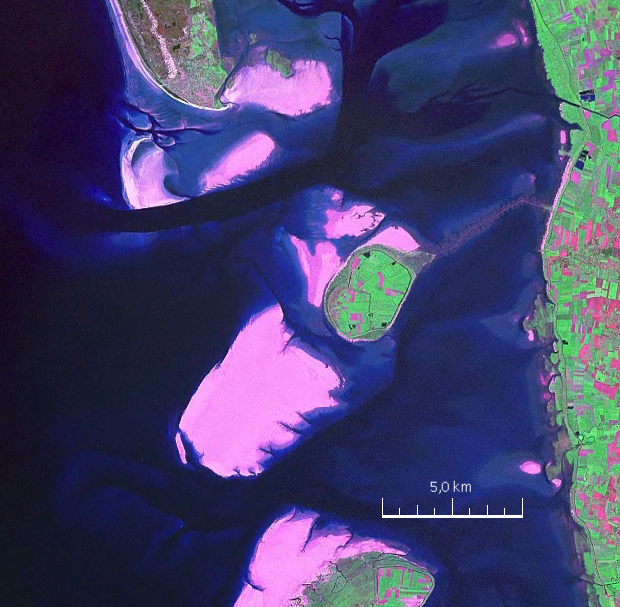 Mandø, the Danish Wadden Island, with Koresand close southwest, Fanø to the north, Romø to the south and the Jutland mainland coast to the east